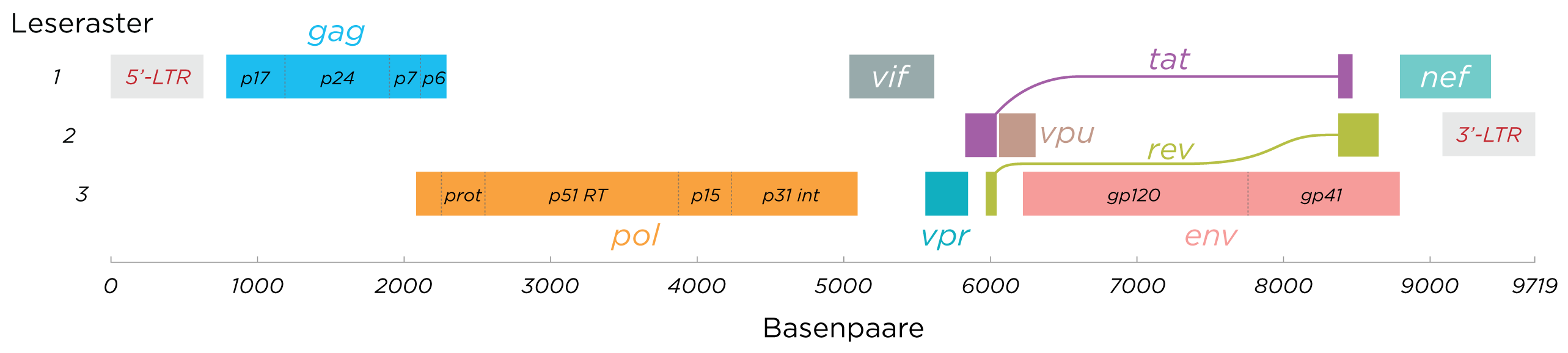 Structure of the HIV-1 genome. It has a size of roughly 10.000 base pairs and consists of nine genes, some of which are overlapping.